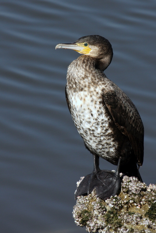 Great Cormarant